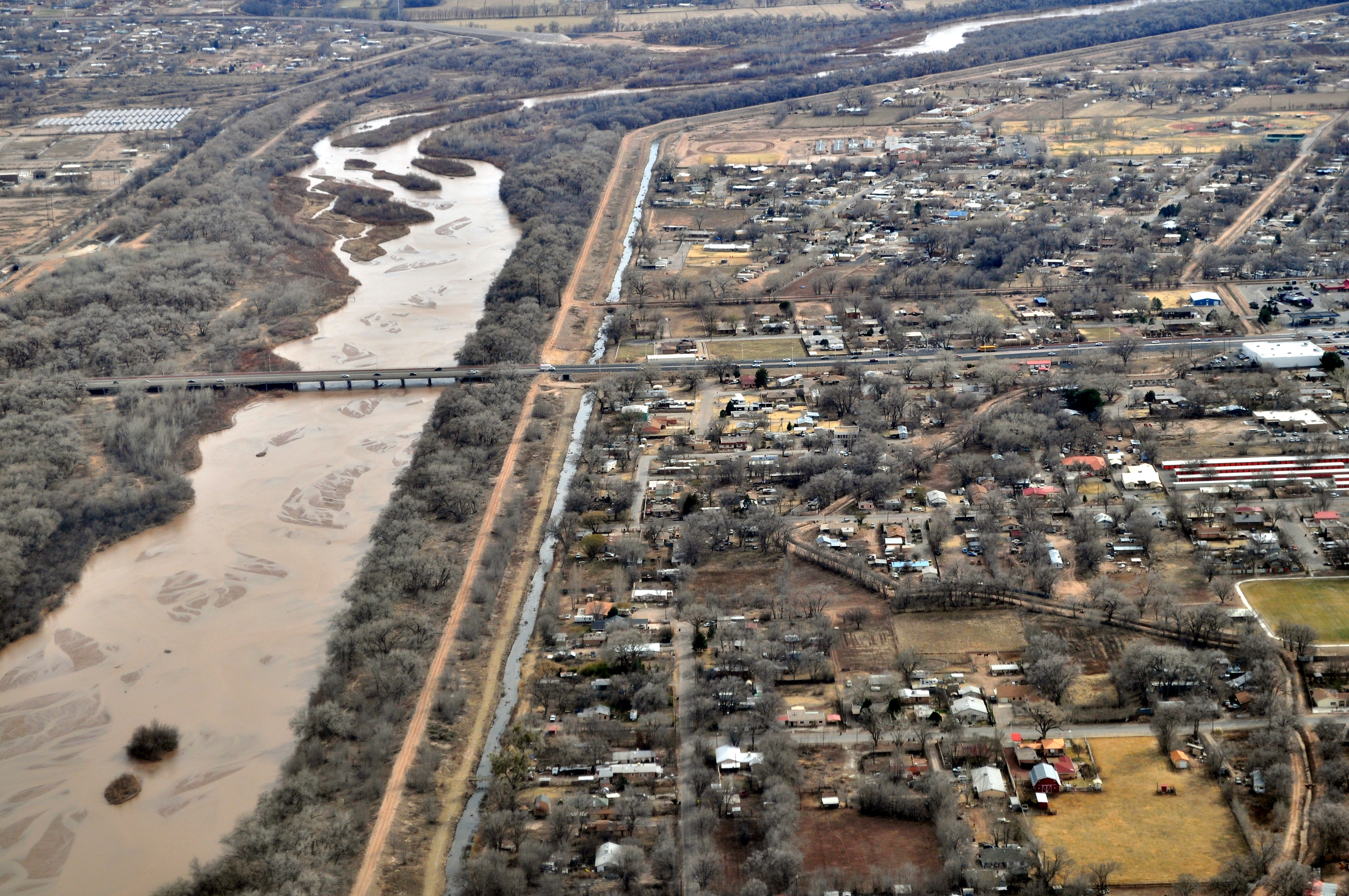 New Mexico State Road 500 crosses the Rio Grande, Albuquerque, New Mexico; looking slightly east of south. Bridge is at Object location35° 01′ 38.09″ N, 106° 40′ 22.36″ W